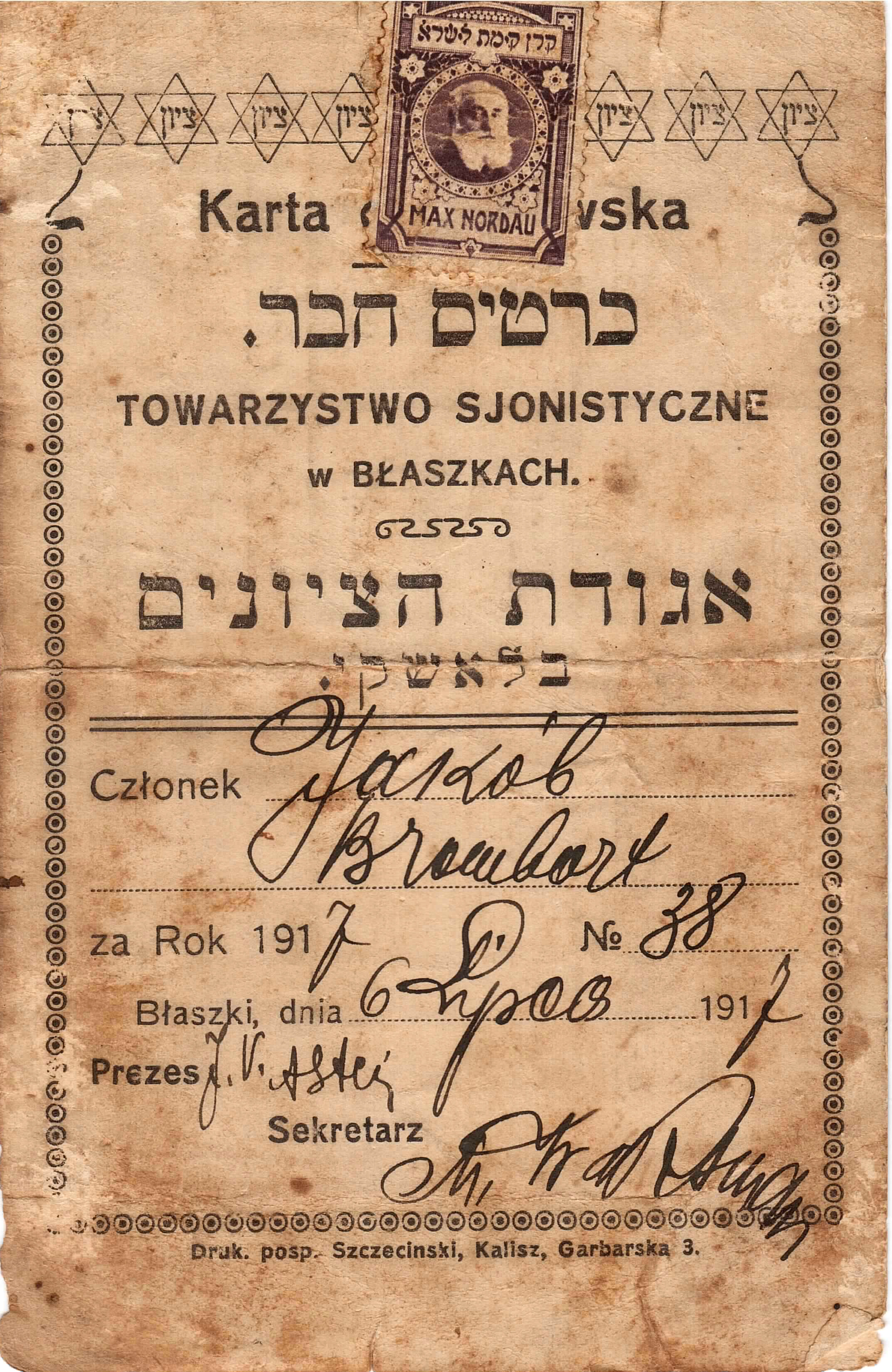 Zionists society card member, Blashki, Poland